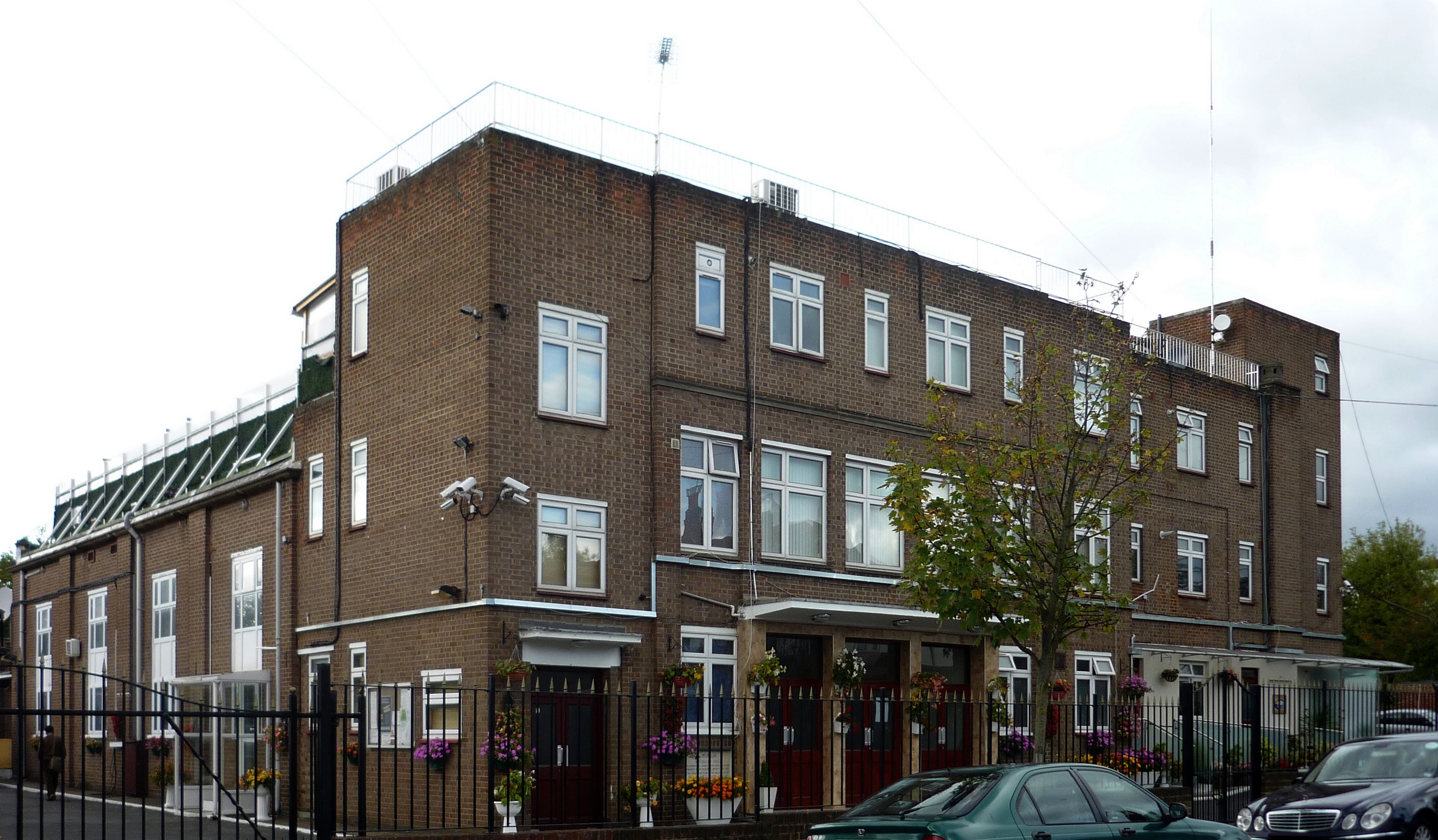 The fondation stone of the hall was laid by Hadhrat Mirza Nasir Ahmad, Khalifat ul-Massih III. on 30th July 1967 in memory of Hadhrat Mirza Bashir ud-Din Mahmud Ahmad, Khalifat ul-Massih II. The present head of the Ahmadiyya Muslim Community resides here since 1984.